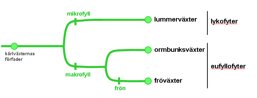 Cladogram over vascular plants (in Swedish).